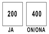 warsaw method